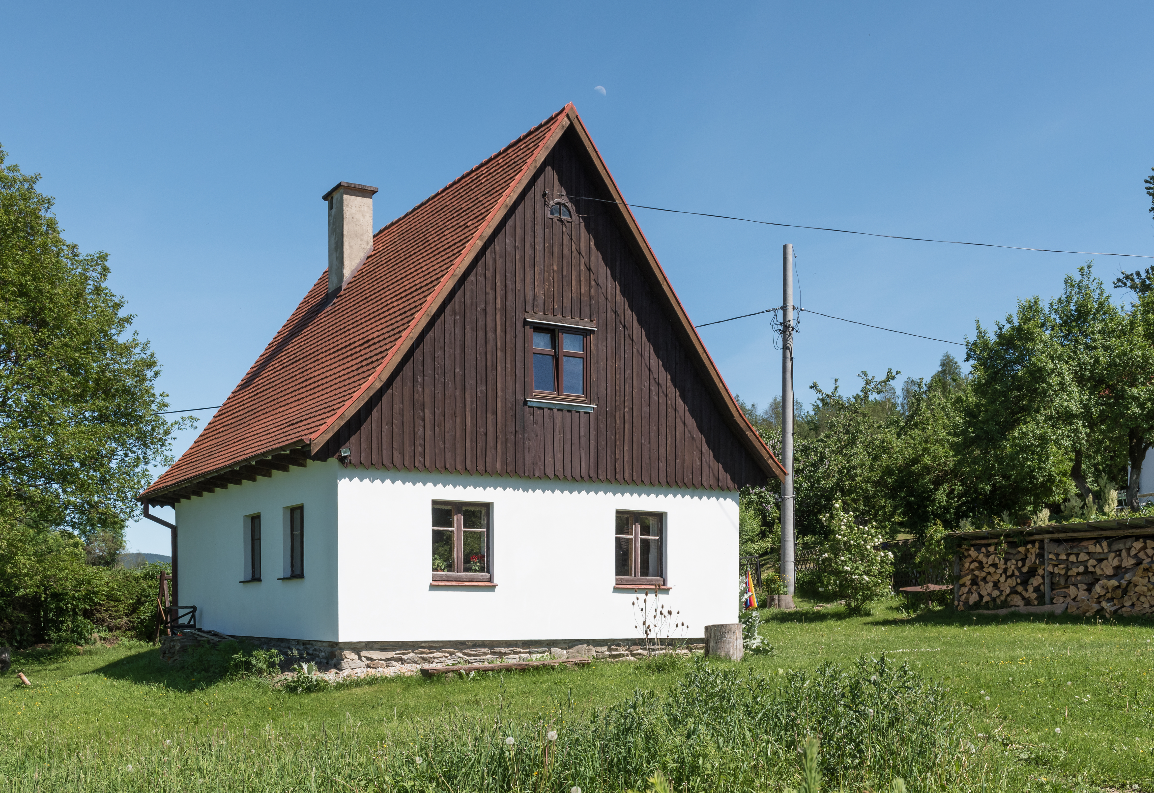 Regional chamber in Radochów